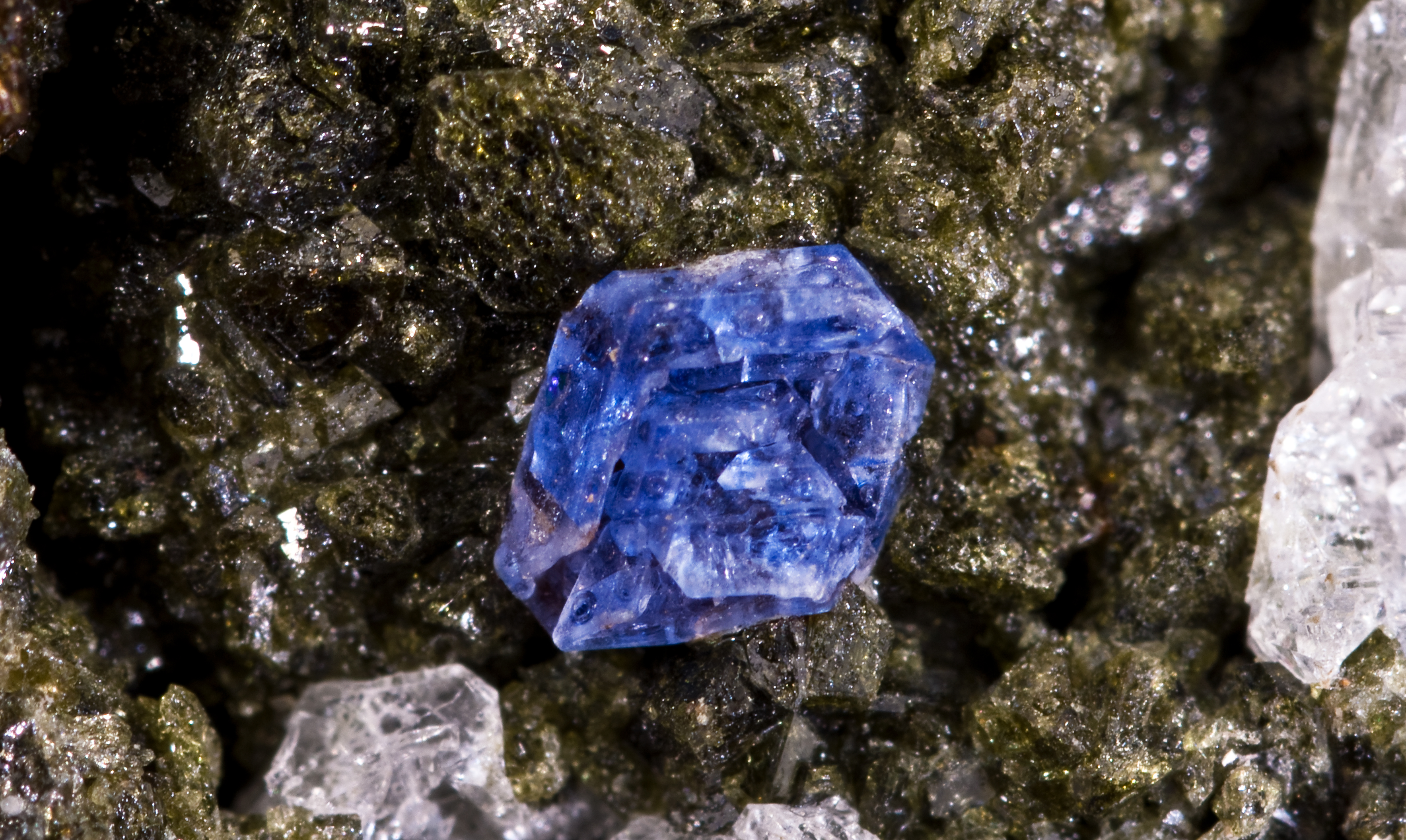 Haüyne on augite Collection Georges Friedel 1890 Locality : San Vito quarry, San Vito, Ercolano, Monte Somma, Somma-Vesuvius Complex, Naples Province, Campania, Italy Size of crystal 2 mm - Note the gas bubbles visible in the crystal.